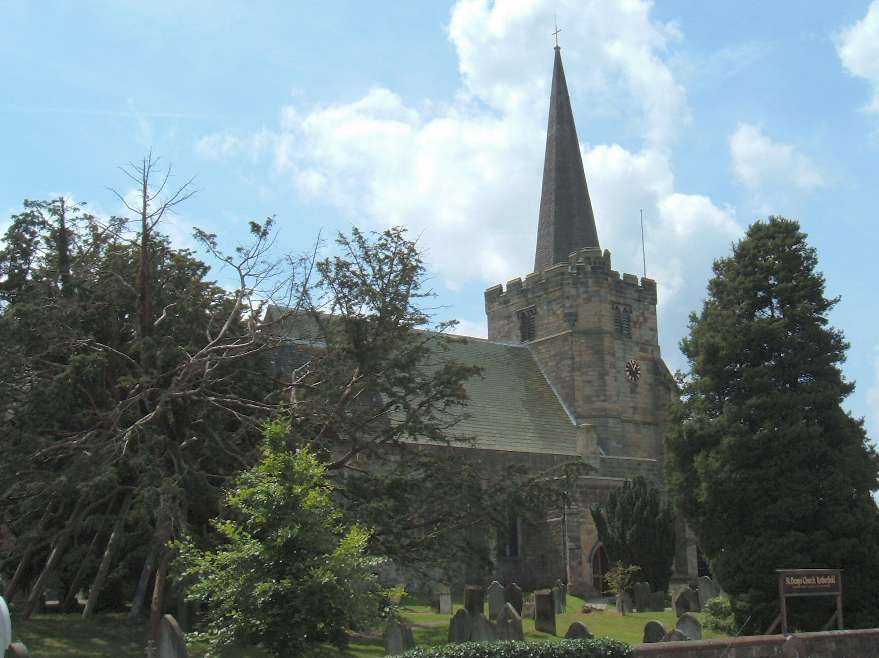 Church of St. Denys in Rotherfield, East Sussex, England. Built 11th-15th century